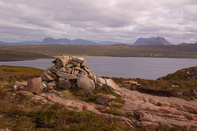 Cairn on summit at north end of Tanera More, with Assynt hills behind Suilven, Canisp, Cul Mor and Stac Pollaidh are the main peaks